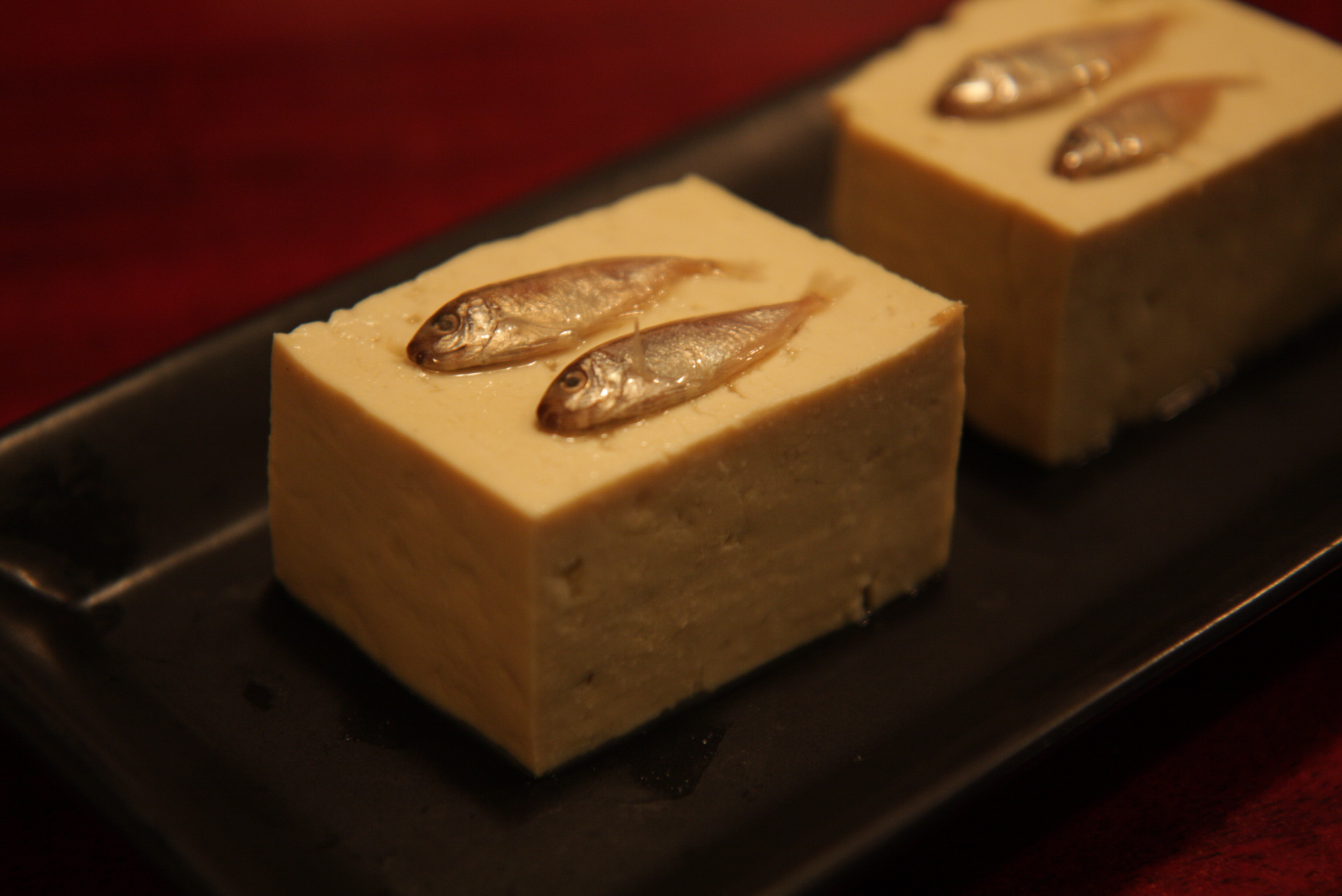 Went to Okinawa restaurant and I ordered Shima-Tofu (島豆腐) Was surprose to see a little fish on top of it.